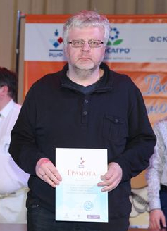 Evgeniy Solozhenkin (chess player)